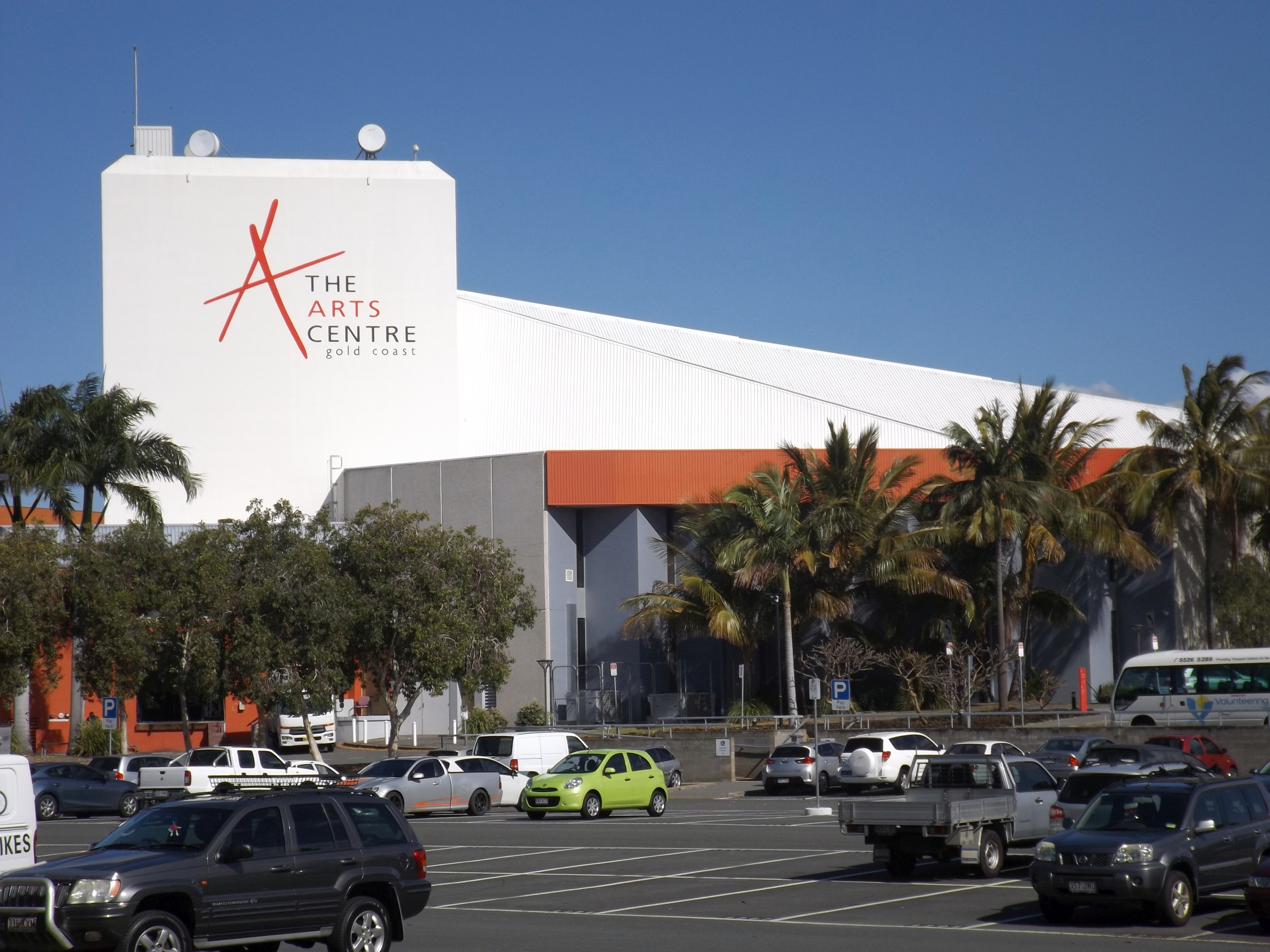 Photo of the Arts Centre Gold Coast and carpark at Surfers Paradise, City of Gold Coast, Queensland, Australia.